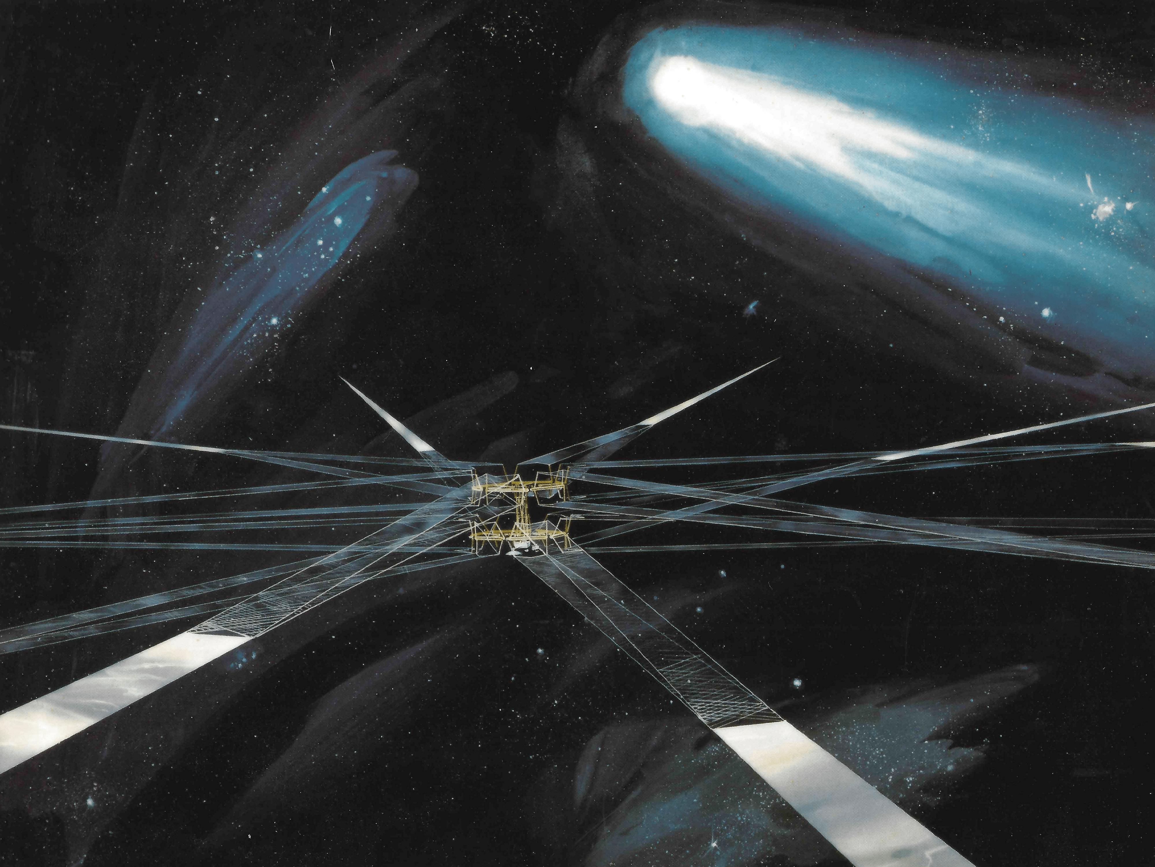 Proposed design for a heliogyro solar sail spacecraft intended to rendezvous with Halley's Comet in 1986. The design featured 12 blades in two stacks of six, with each blade 8 meters wide and 6.2 kilometers long, deployed and kept extended by rotating the spacecraft. Spacecraft attitude control and steering would be accomplished by varying the pitch of the blades, allowing it to fly into the solar wind. for some additional details.